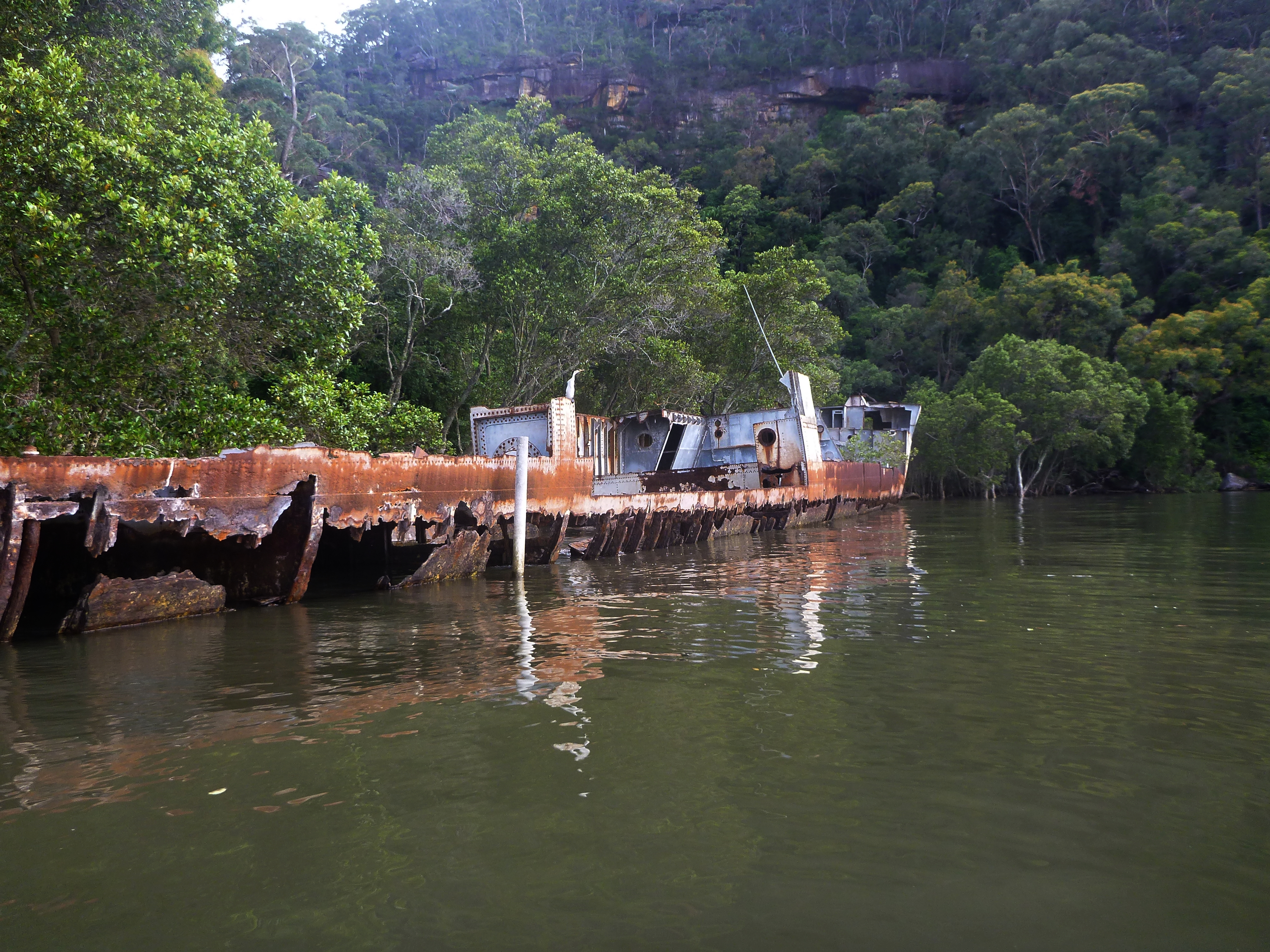 The wreck of HMAS Parramatta in 2016